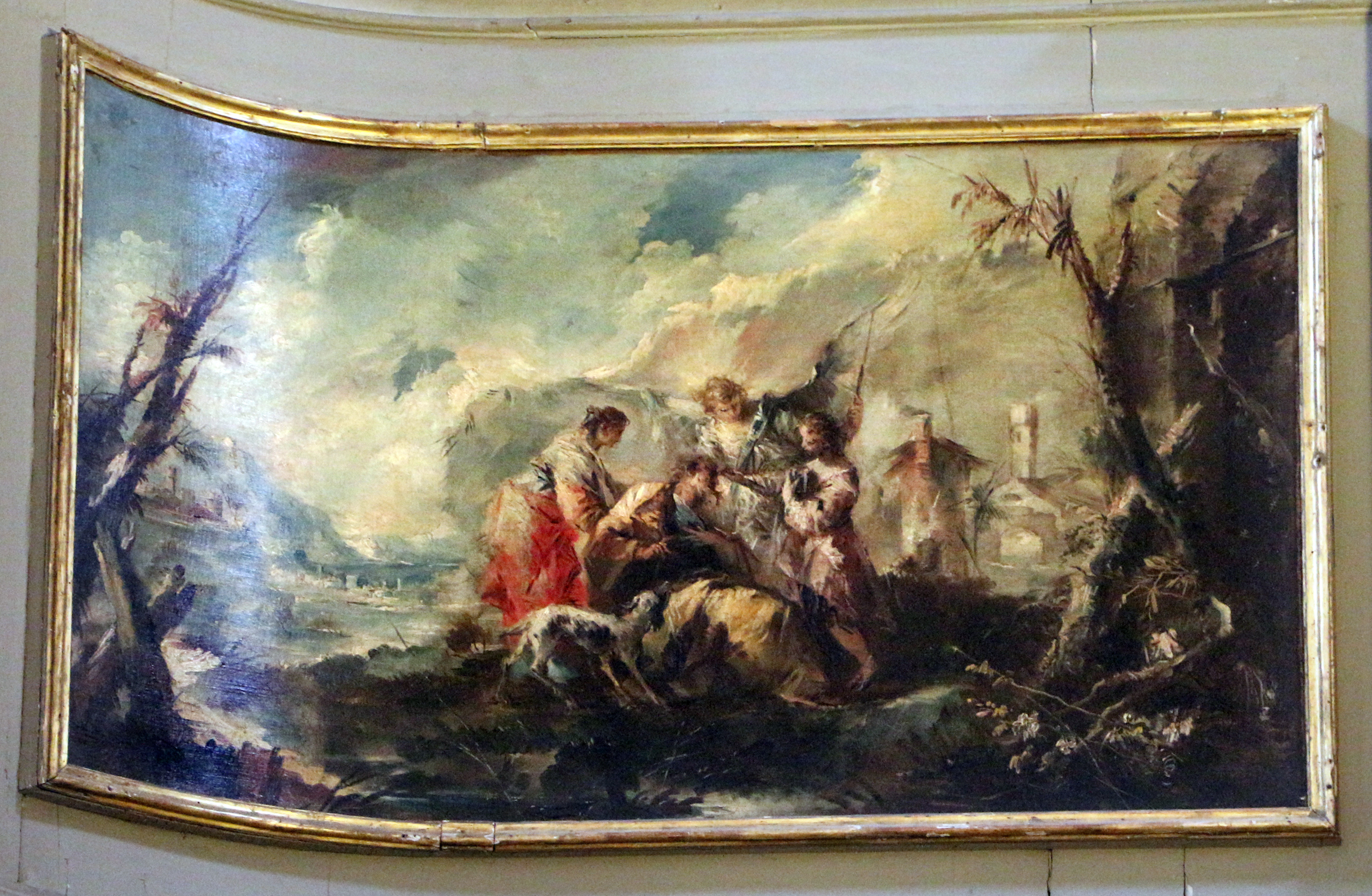 Interior of Angelo Raffaele (Venice)